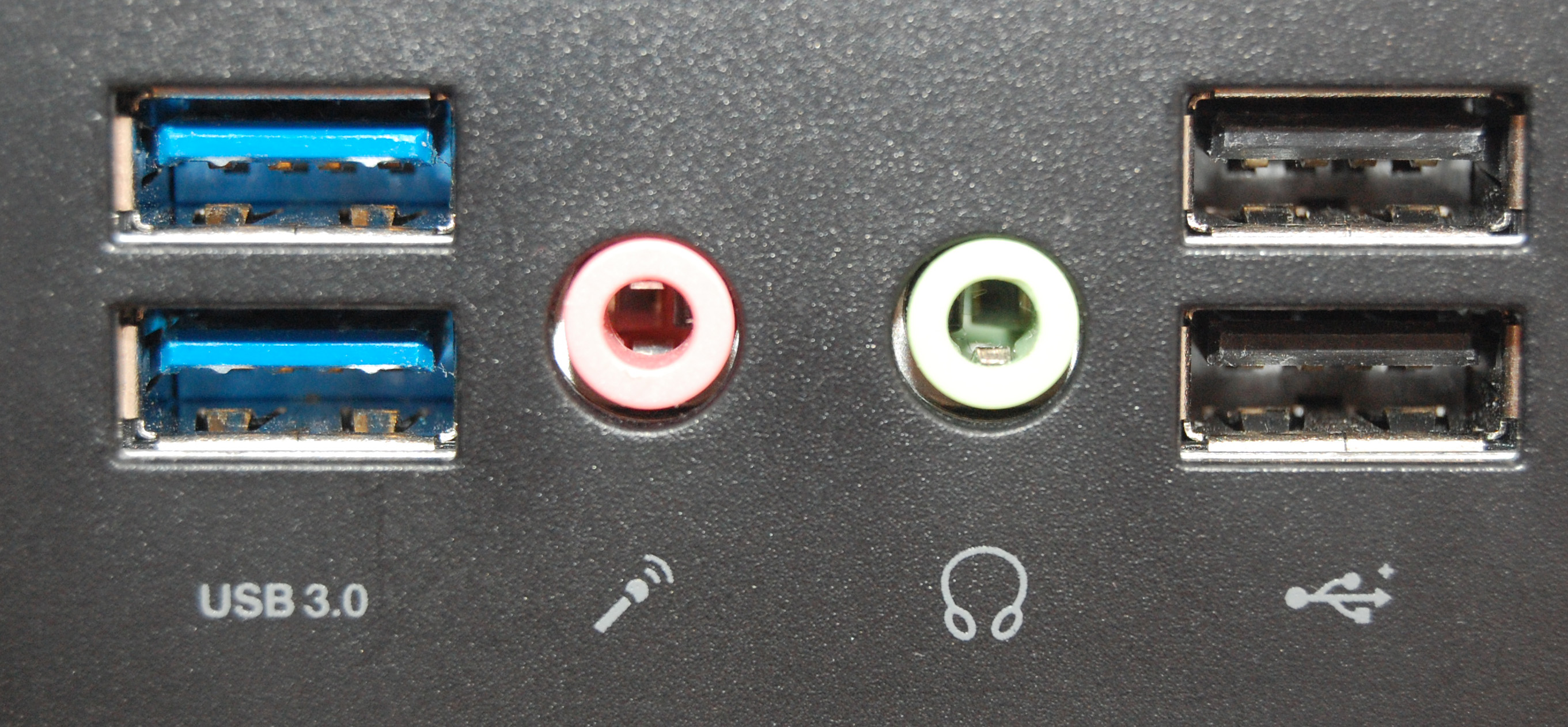 Computer USB 3.0, mike, headphone, and USB 2.0 jacks